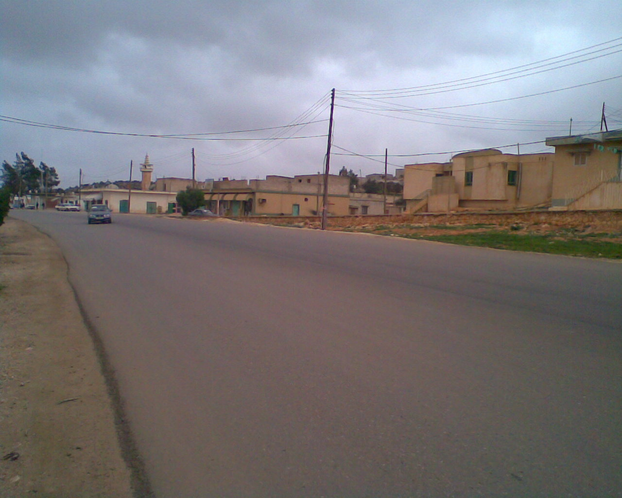 The Libyan village of El Bayada in Jebel Akhdar region.